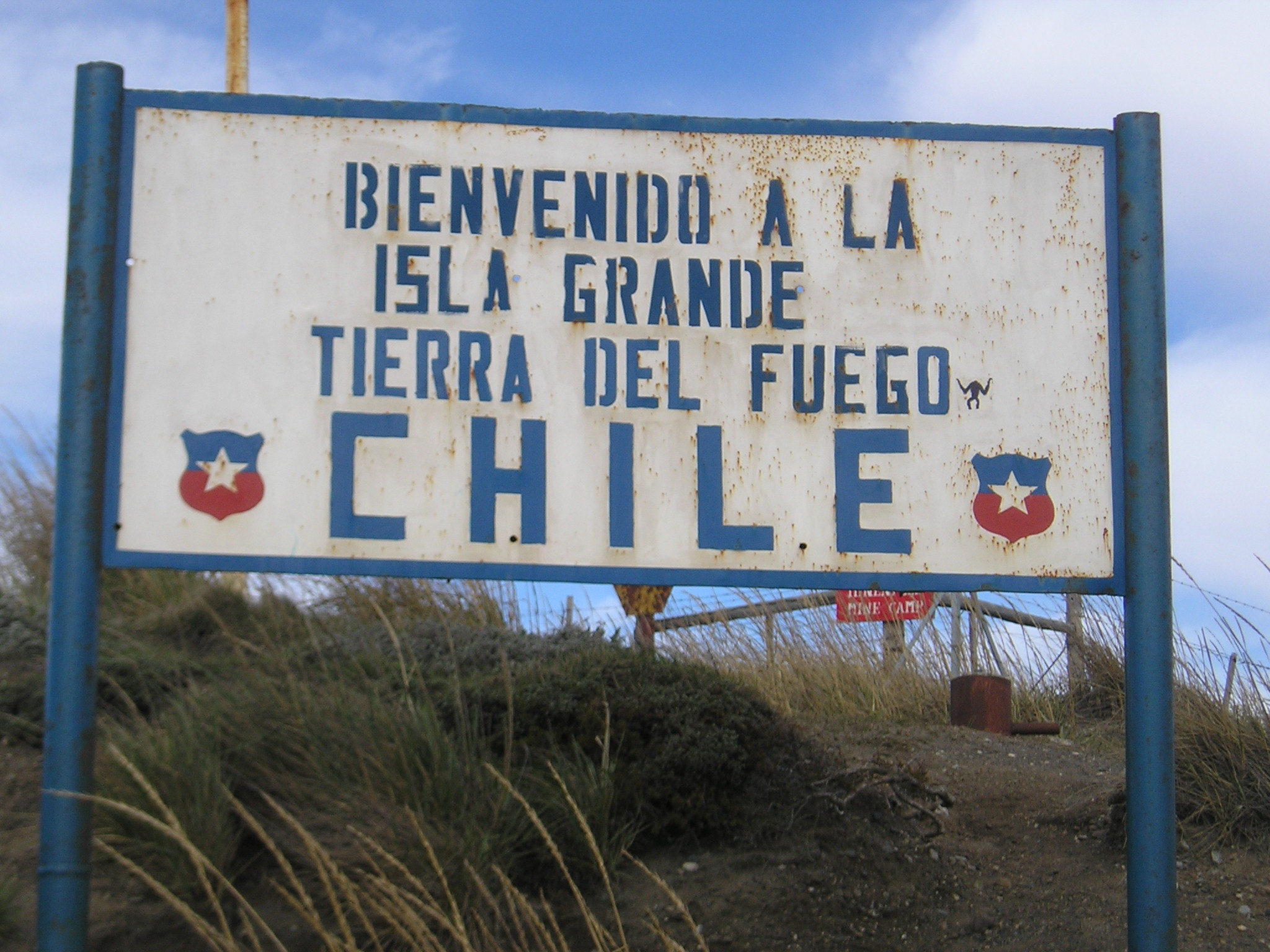 Welcome sign at Punta Espora (opposite side of the Strait of Magellan to Punta Delgada) aferry terminal, Chilean Tierra del Fuego